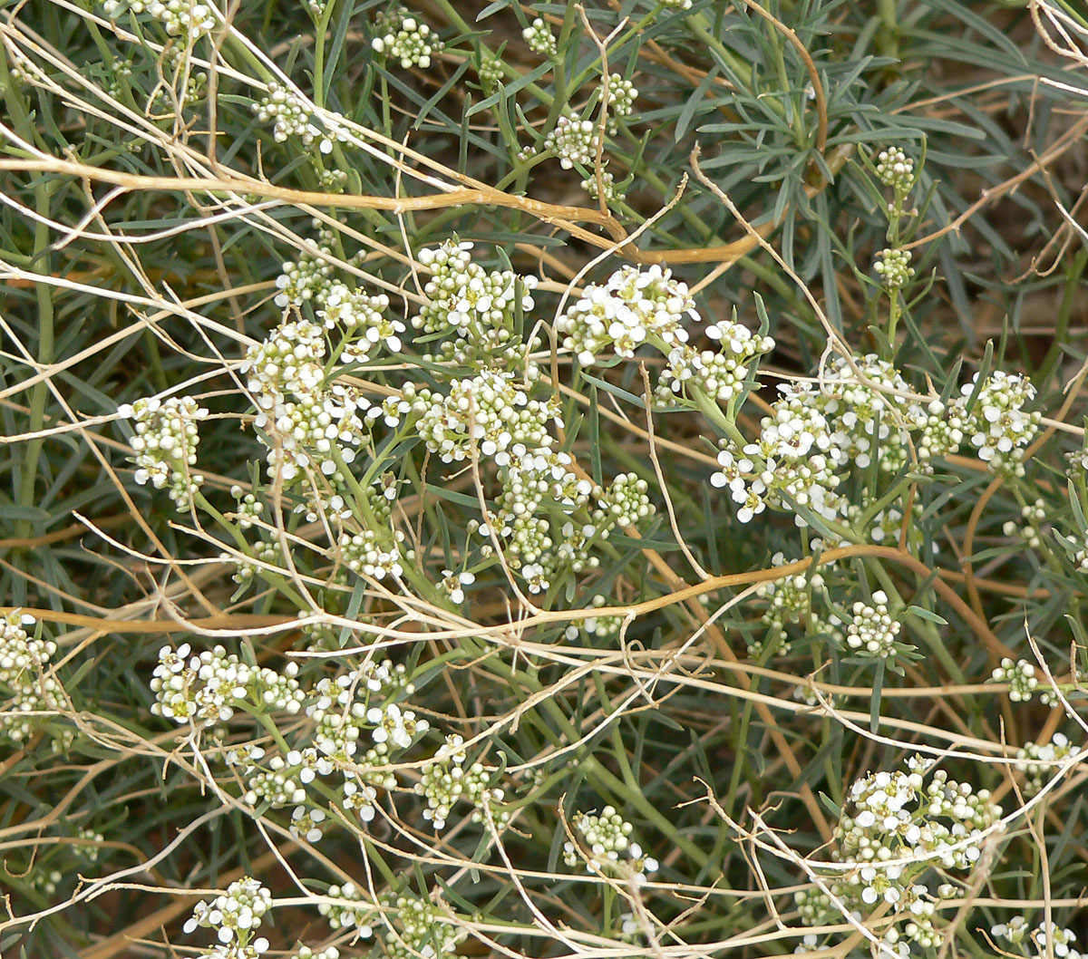 Lepidium fremontii in the Buffington Pockets area, Valley of Fire, southern Nevada